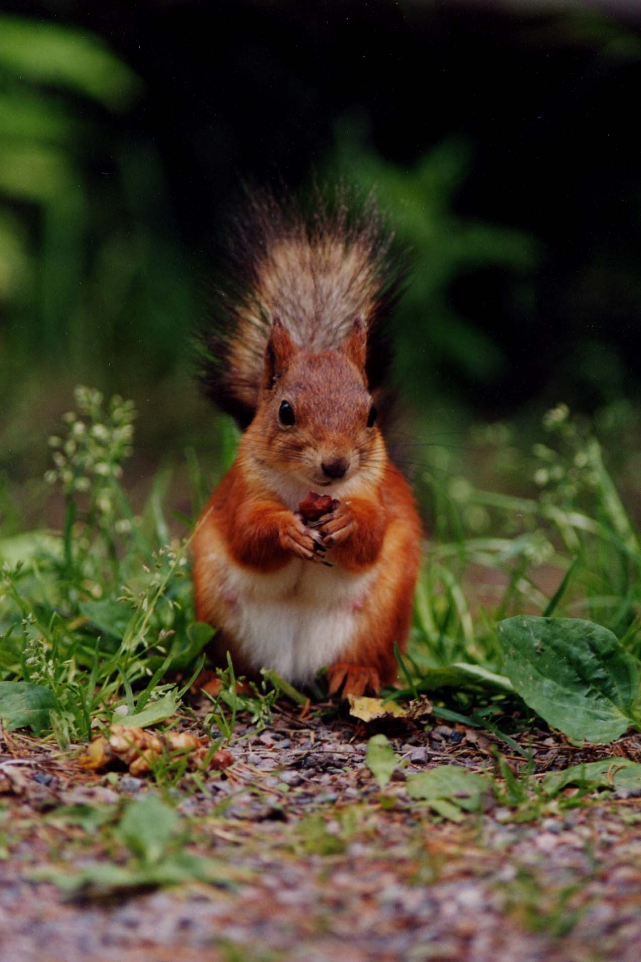 A european squirrel (Sciurus vulgaris) with a cone piece in hand.